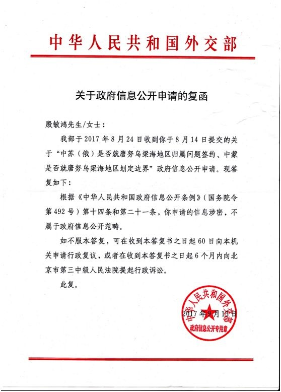 On 13 September 2017, Ministry of Foreign Affairs of the People's Republic of China issued a letter to Yin Minhong, rejecting his application for disclosure of any international treaties on Tuva that the PRC had signed, on grounds of state secret. 粵語: 2017年9月13號，中華人民共和國外交部覆函殷敏鴻，基於國家機密拒絕公開有關唐努烏梁海嘅國際條約。